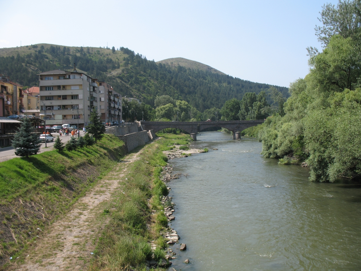 Old stone bridge over Ibar river in Raška,Serbia.